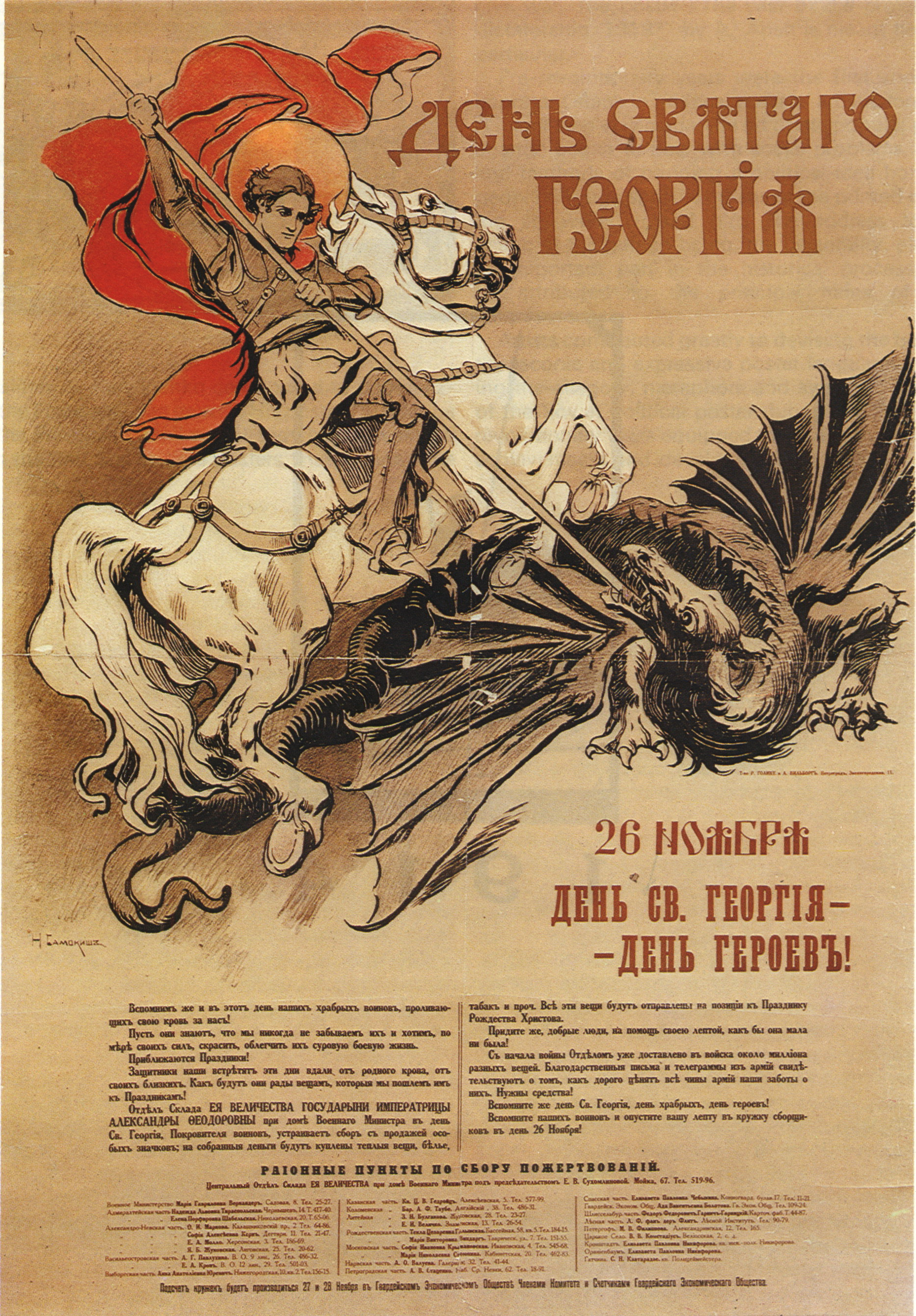 The day of Saint George poster.